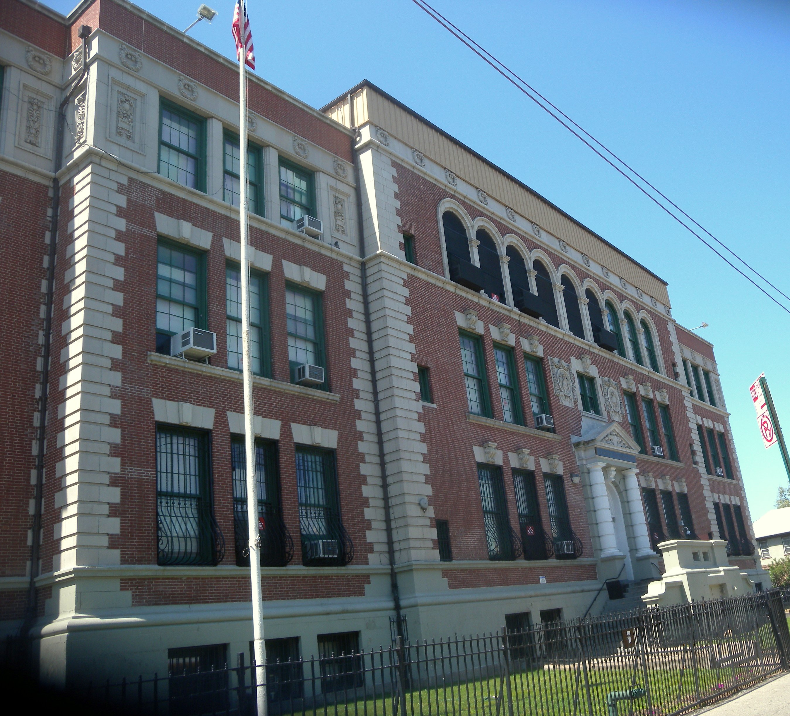 Looking north from 21st Avenue at Brooklyn Studio School on a sunny afternoon.